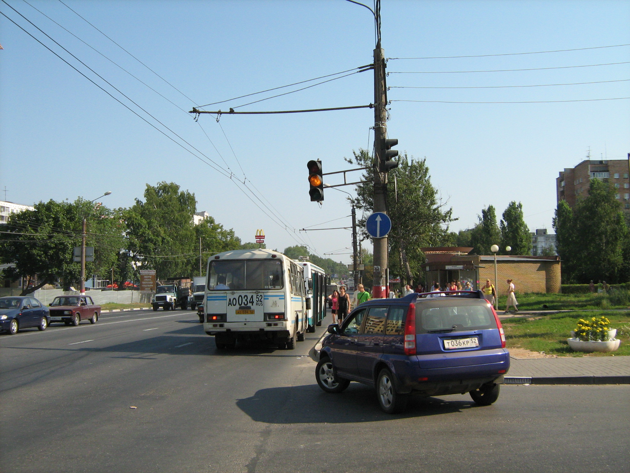 Gagarin Ave in Scherbinki, Nizhny Novgorod.